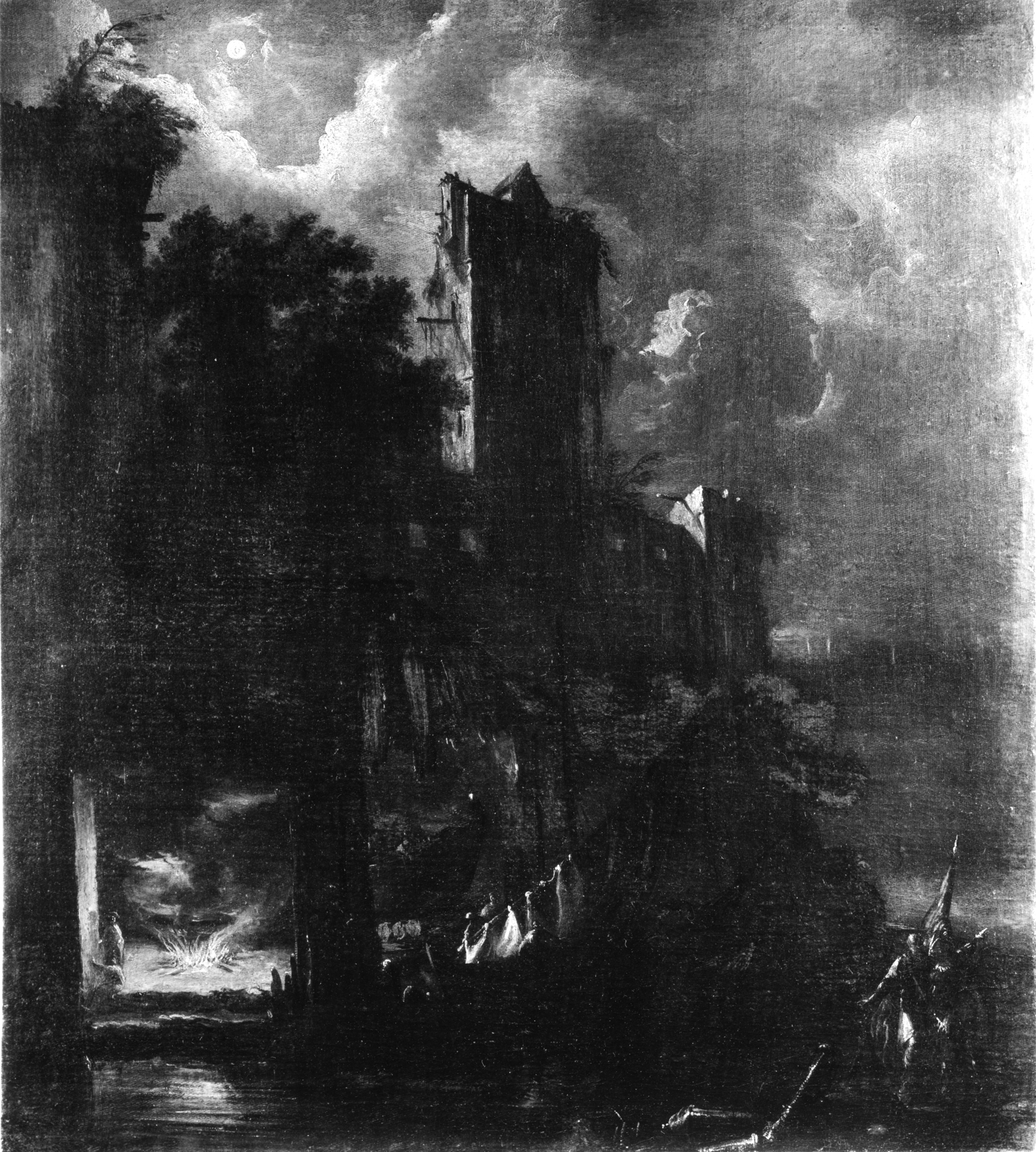 Pedon's nocturnal landscape with the eerie ruins of a castle is lit by the moon and a small fire that is reflected in the water. Some figures can be discerned, such as the two soldiers in the foreground, but the scene remains intentionally mysterious. Paintings of pastoral landscapes with an idealized countryside and ancient ruins, such as those by Van Bloemen exhibited nearby, were extremely popular during the 17th century; however, a few artists, like Pedon, were fascinated with the strange and unfamiliar aspects of nature.